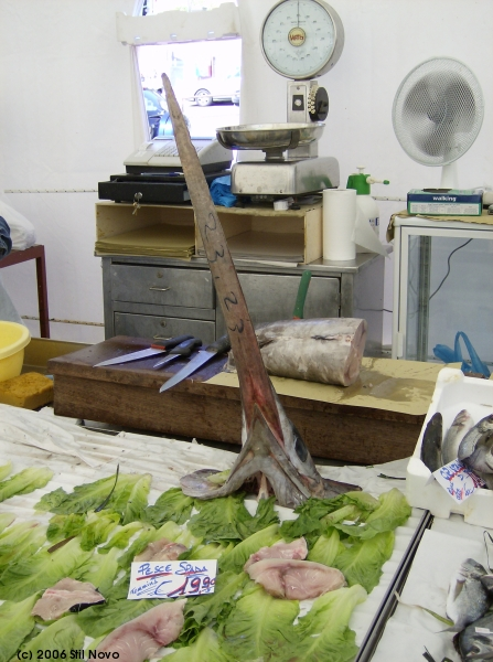 Swordfish at the San Benedetto market in Cagliari.